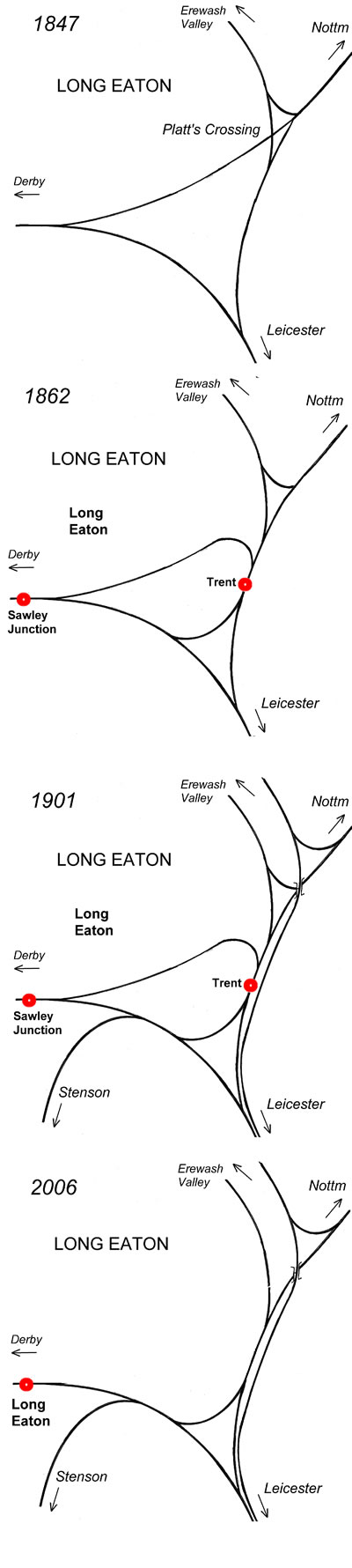 History of Trent Junction, near Long Eaton, on the old Midland Counties Railway. Dates from Higginson, M, (1989) The Midland Counties Railway: A Pictorial Survey, Derby: Midland Railway Trust.